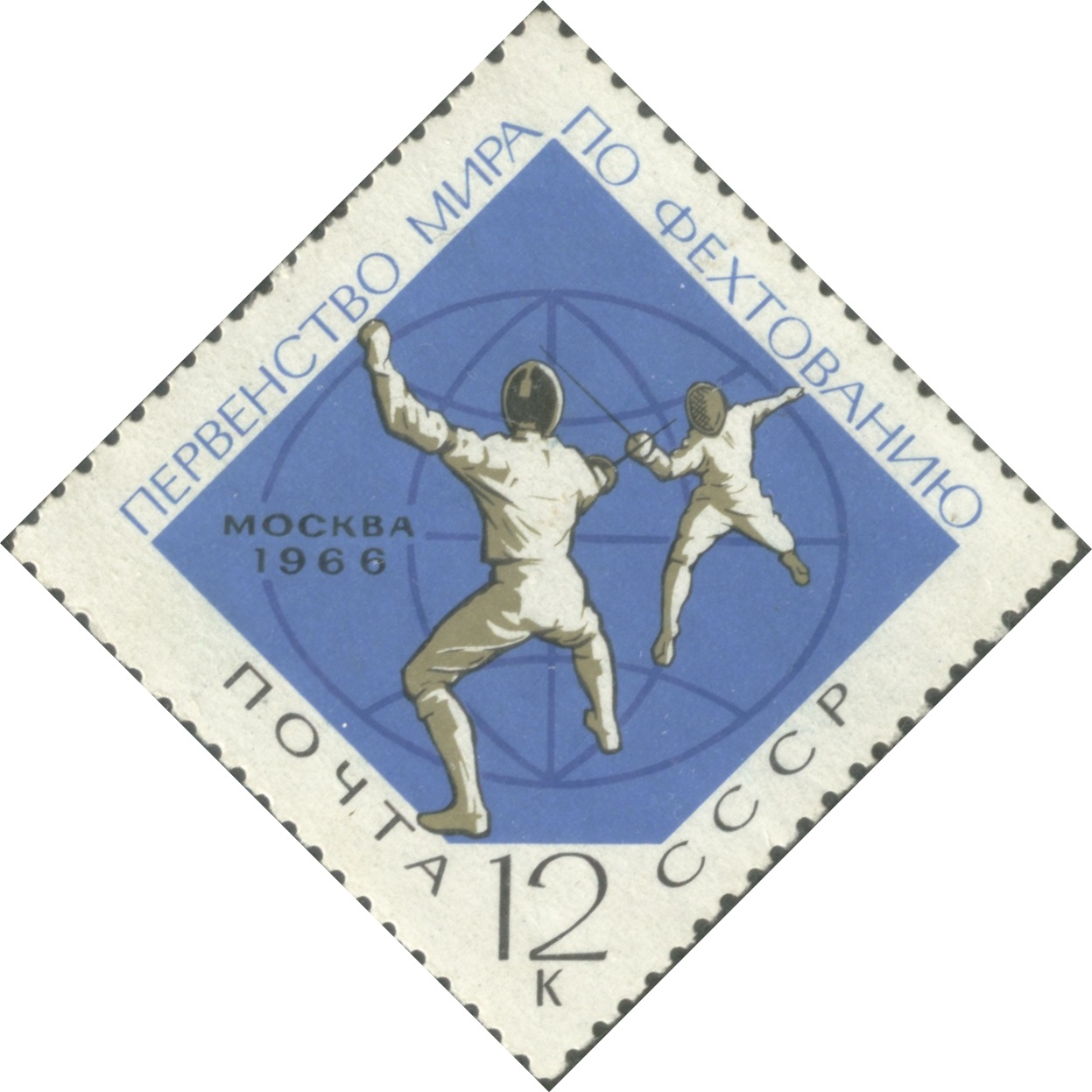 Stamp of USSR: The World Fencing Championship. Fencers. Issue: The World Sport Championships and the World Chess Title Match.